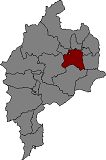 Location of Alàs i Cerc in Alt Urgell